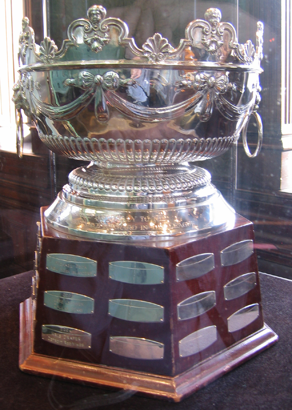 Frank J. Selke Trophy on display at the Hockey Hall of Fame in Toronto. The trophy is awarded to the NHL's top defensive forward. Taken by Kmf164 on November 19, 2005.